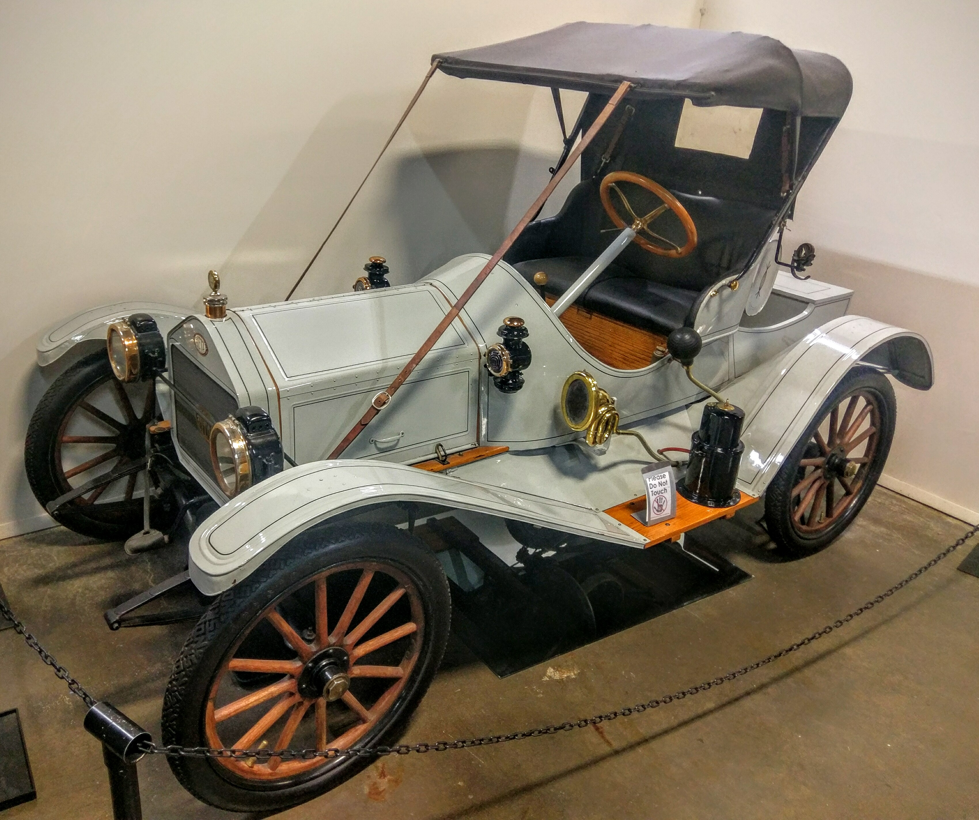 On display at the California Automobile Museum. Photo by Jim Heaphy.